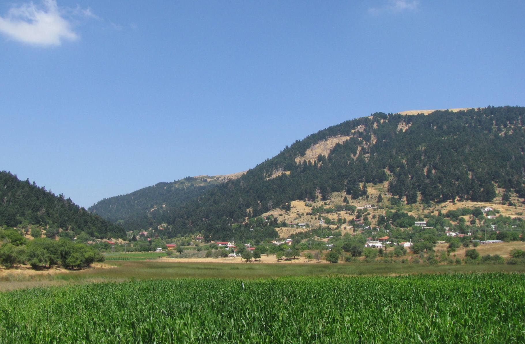 View of the Rakita plateau (1,100m altitude) and the nearby fir forests.